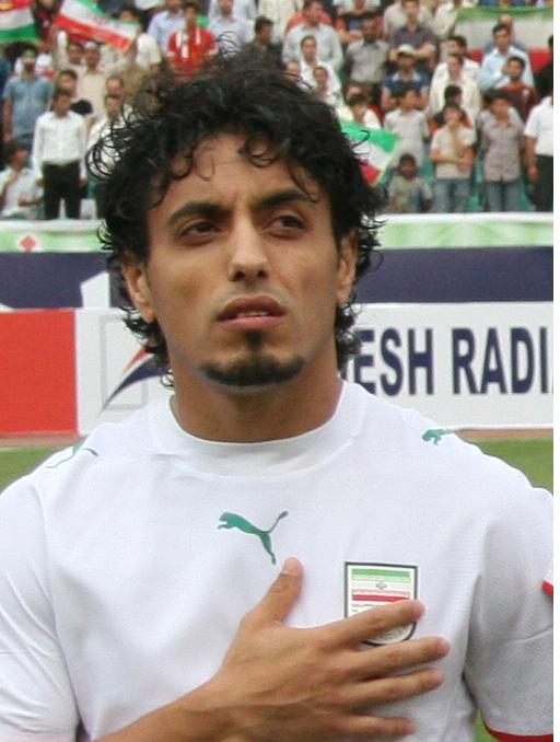 Rasoul Khatibi in 2006